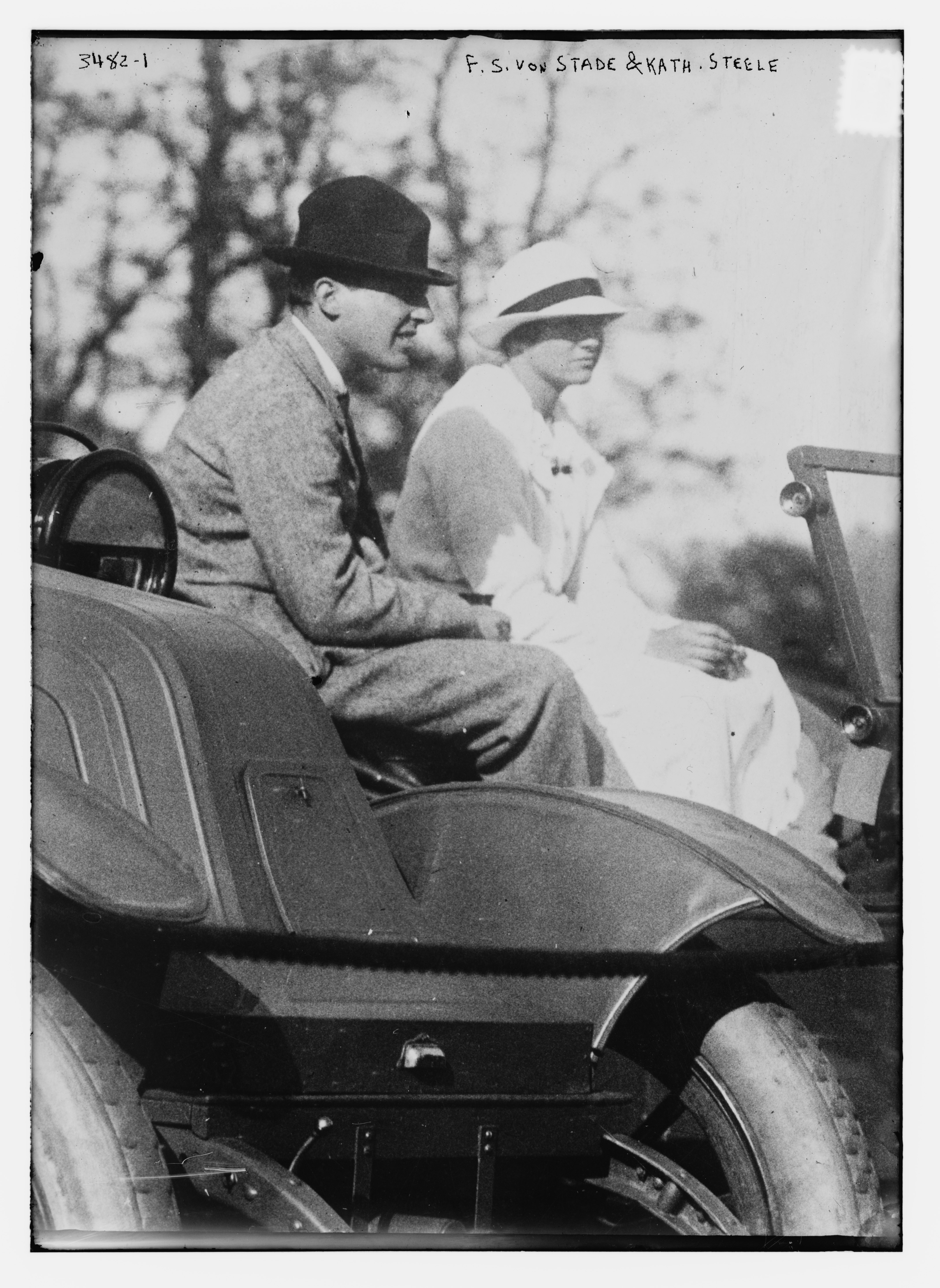 Title: F.S. Von Stade and Kath. Steele Abstract/medium: 1 negative : glass ; 5 x 7 in. or smaller.